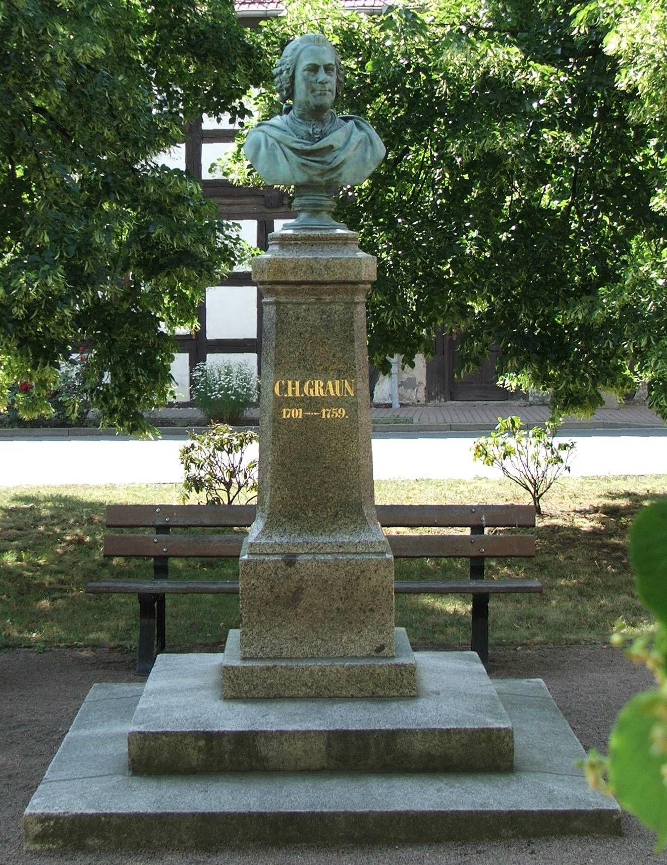 Monument of Carl Heinrich Graun in Wahrenbrück, Germany.